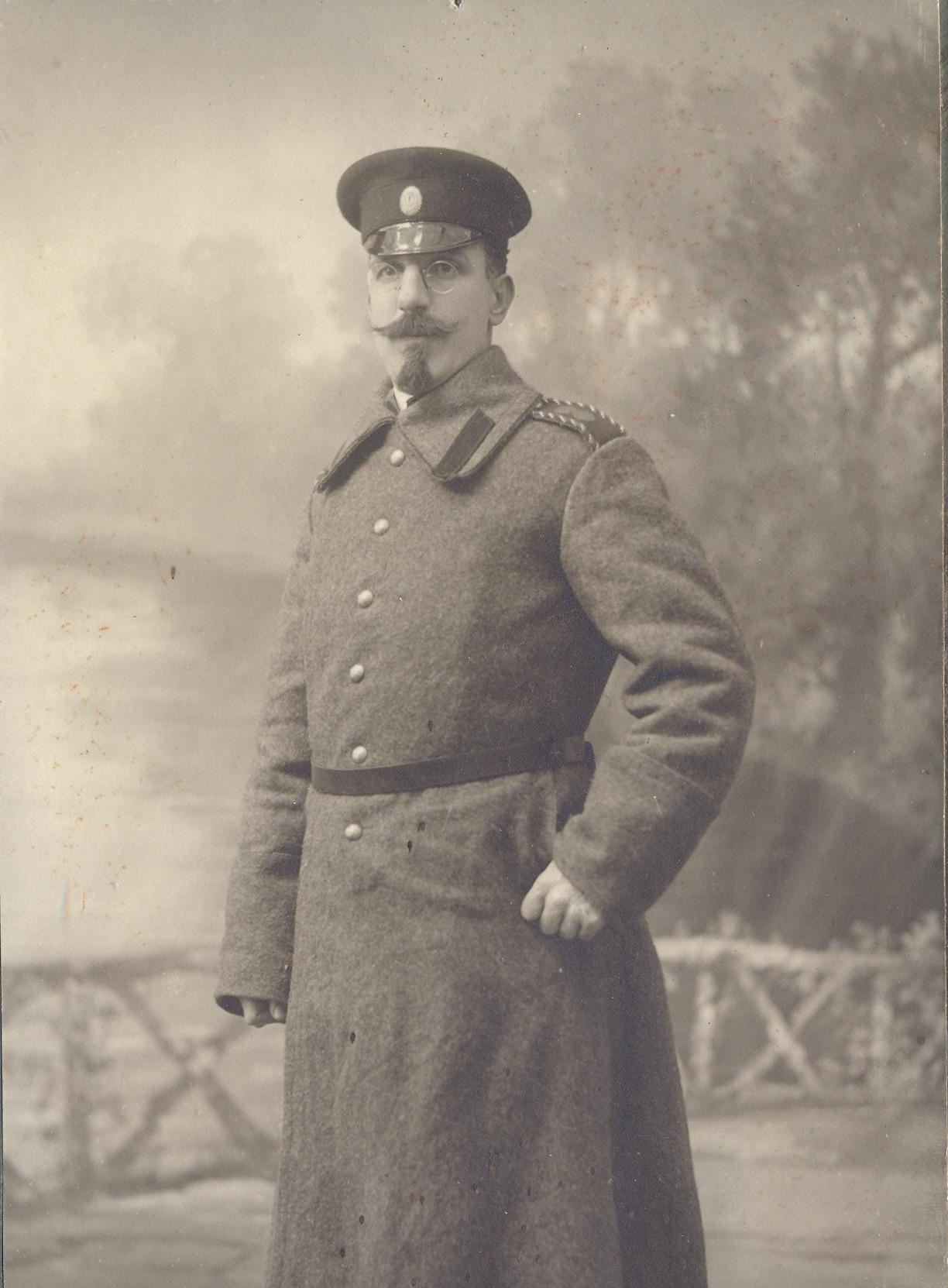 Kiril Hristov, bulgarian writer.